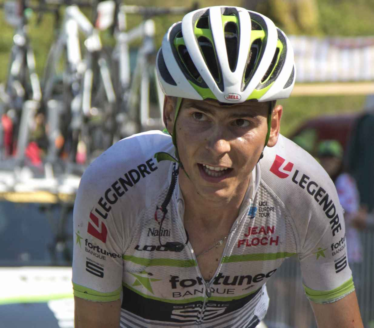 2018 Tour de France